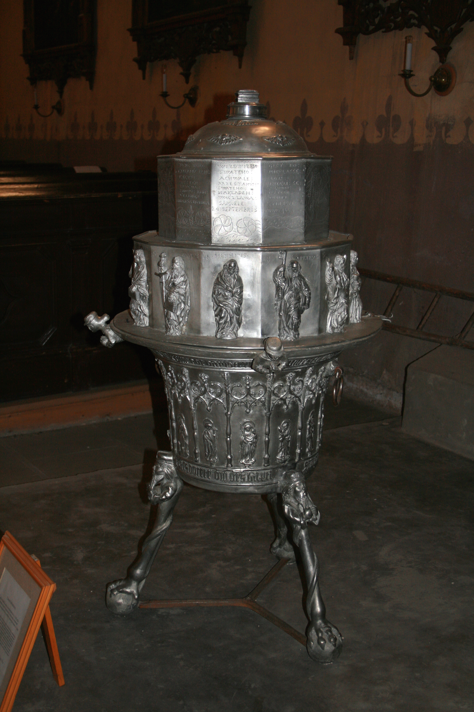 Tin Baptismal font in Church of st Nicolas in Jaroměř, east Bohemia, Czech Republic